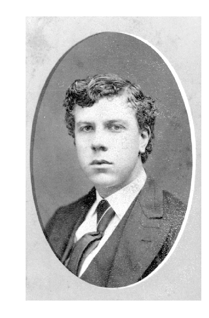 Photo taken 1873 Photographer: G.D. Morse Source #A-01391 [1]